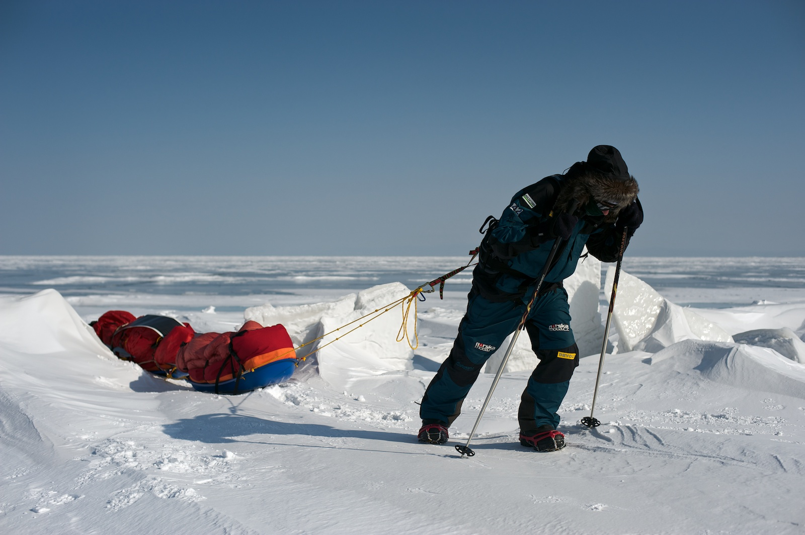 The Czech expedition Bergans Baikal 2010 with an aim to cross the lake Baikal lengthwise took place in February and March 2010. This picture depicts a member of the team, Vaclav Sura, as he is pulling his sleds.